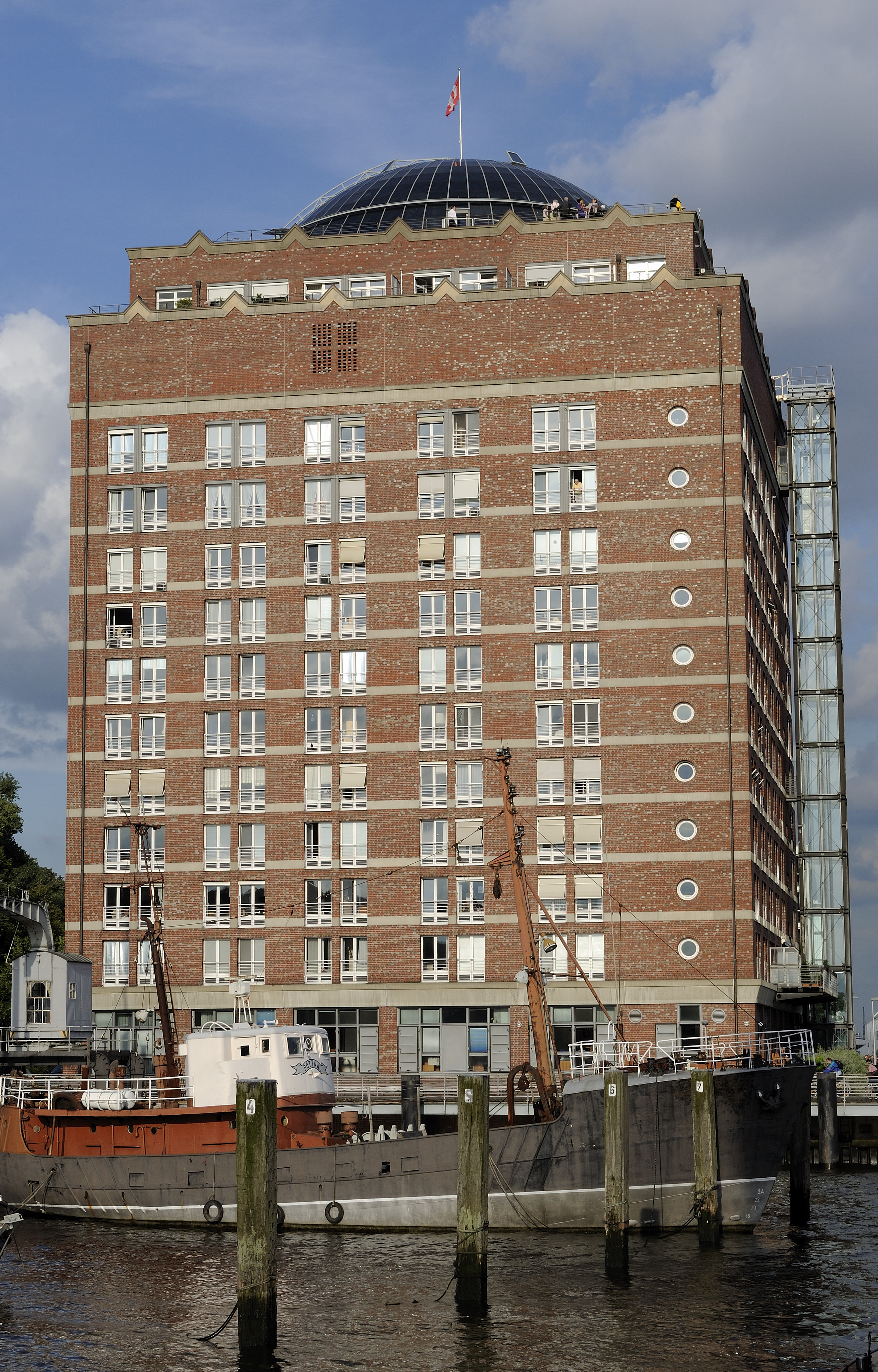 Picture taken in Hamburg. Augustinum Hamburg.